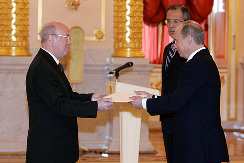 ST ALEXANDER HALL, GRAND KREMLIN PALACE. Ceremony for the presentation by foreign ambassadors of their letters of credentials. Ambassador of Andorra Pere Joan Tomas Sogero presents his letter of credentials. In the background is Russian Foreign Minister Sergei Lavrov.